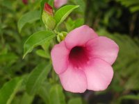 Flower: PAllamanda blanchetii